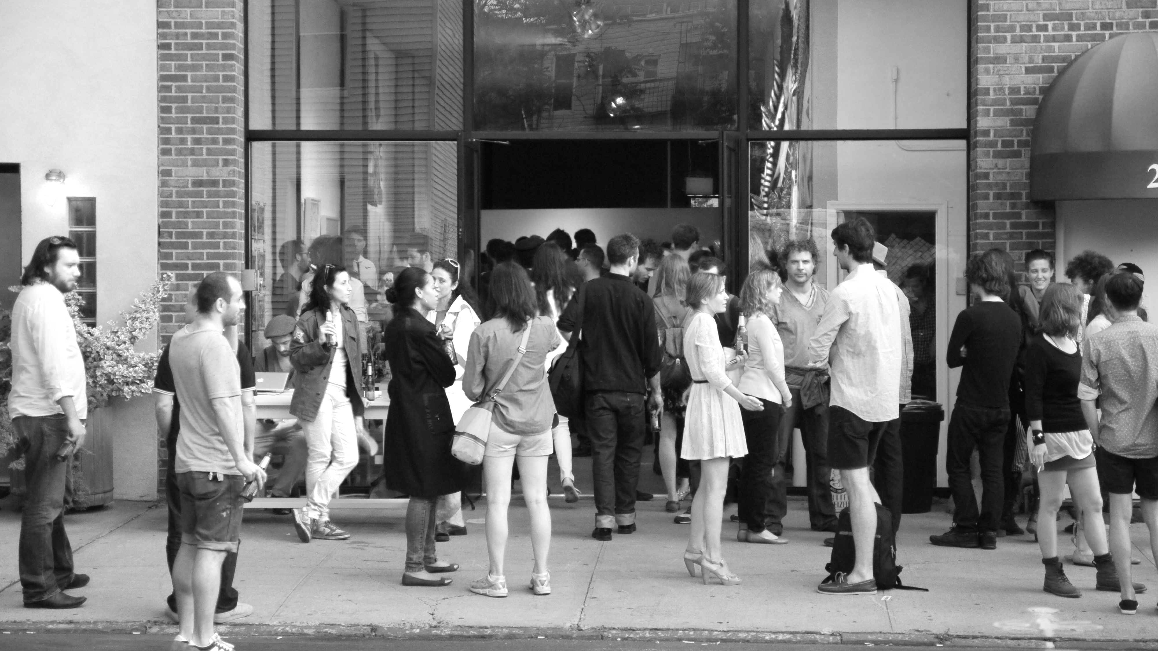 REVERSE art space in Williamsburg, New York